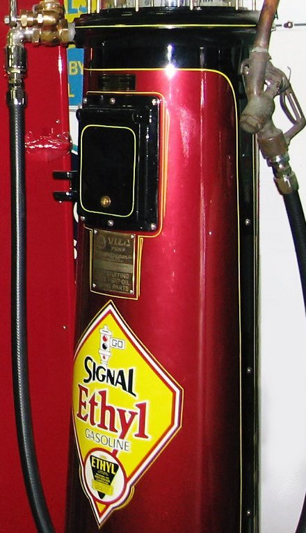 Vintage Signal Ethyl Gasoline pump (detail). Private collection. Signal Oil and Gas was founded in California in 1922 and eventually became AlliedSignal, later, Honeywell.